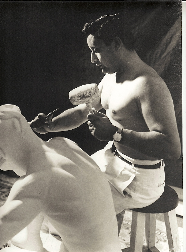 Manuel Carbonell, at his studio in Havana, Cuba, carving out of stone the award-winning sculpture "End of a Race" for the III Bienal Hispanoamerica del Arte, Barcelona, Spain. 1952